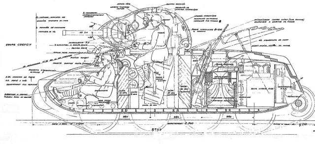 AMX 40 Blueprint